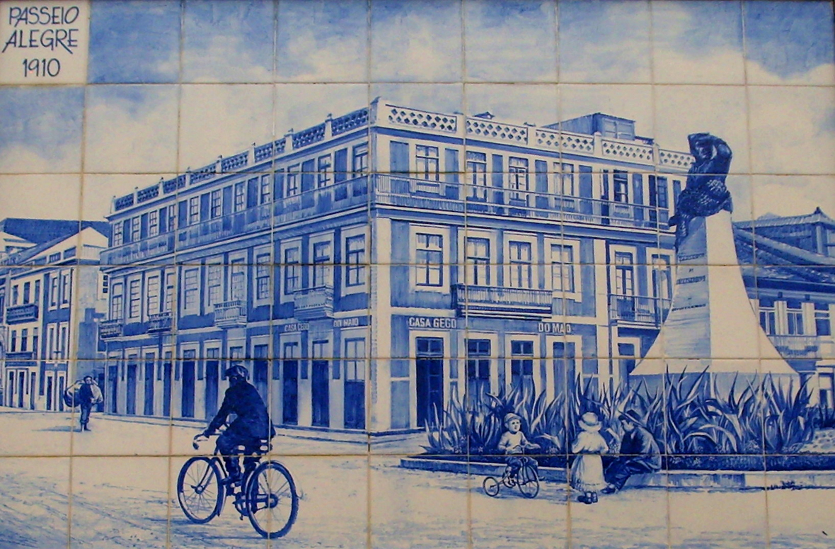 Passeio Alegre Square in 1910. Povoa de Varzim - Portugal